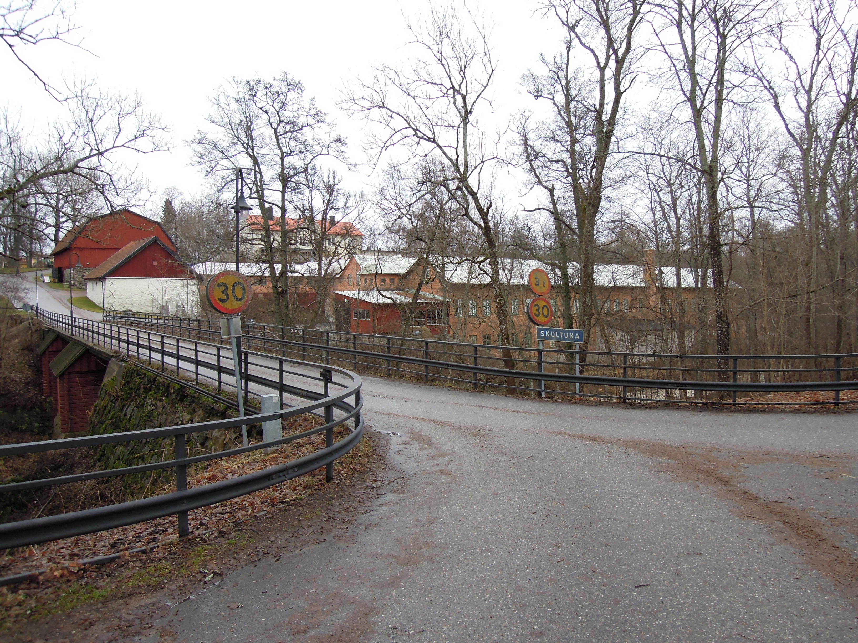 Skultuna Messingsbruk (Brass manufacturing industry) outside Västerås, Sweden. The entry road over the brook, from left: coal barn, hotel, manufacturing plants.